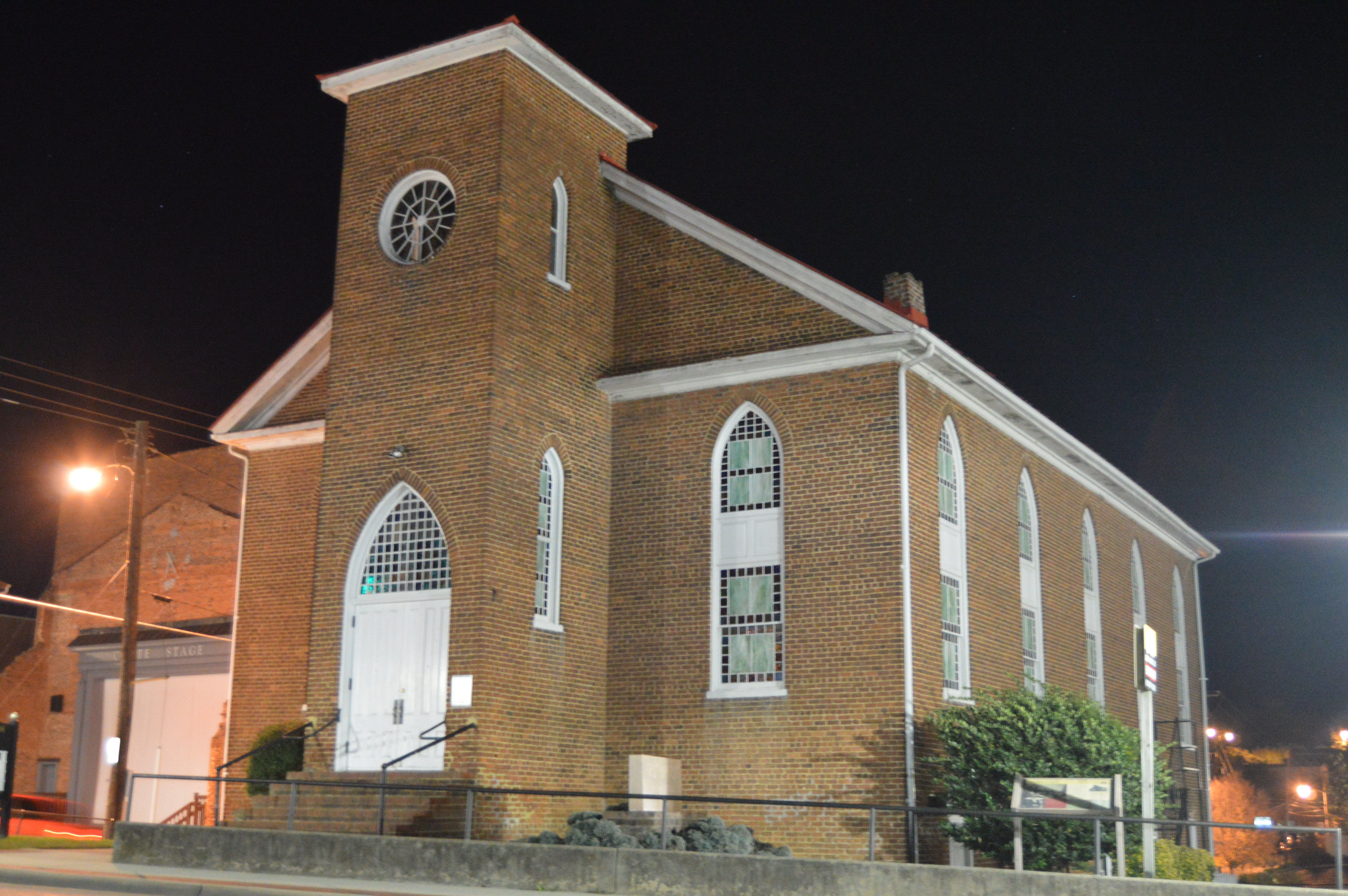 Front and southern side of First Baptist Church, located at 100 S. Main Street (State Route 45) in Farmville, Virginia, United States. Built in 1855, it is listed on the National Register of Historic Places.